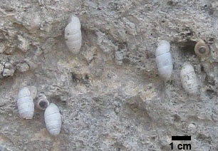 Five Cerion snails on limestone wall of Windley Key Fossil Quarry (with two other non-Cerion snails), Florida. Taken July 2, 2010.